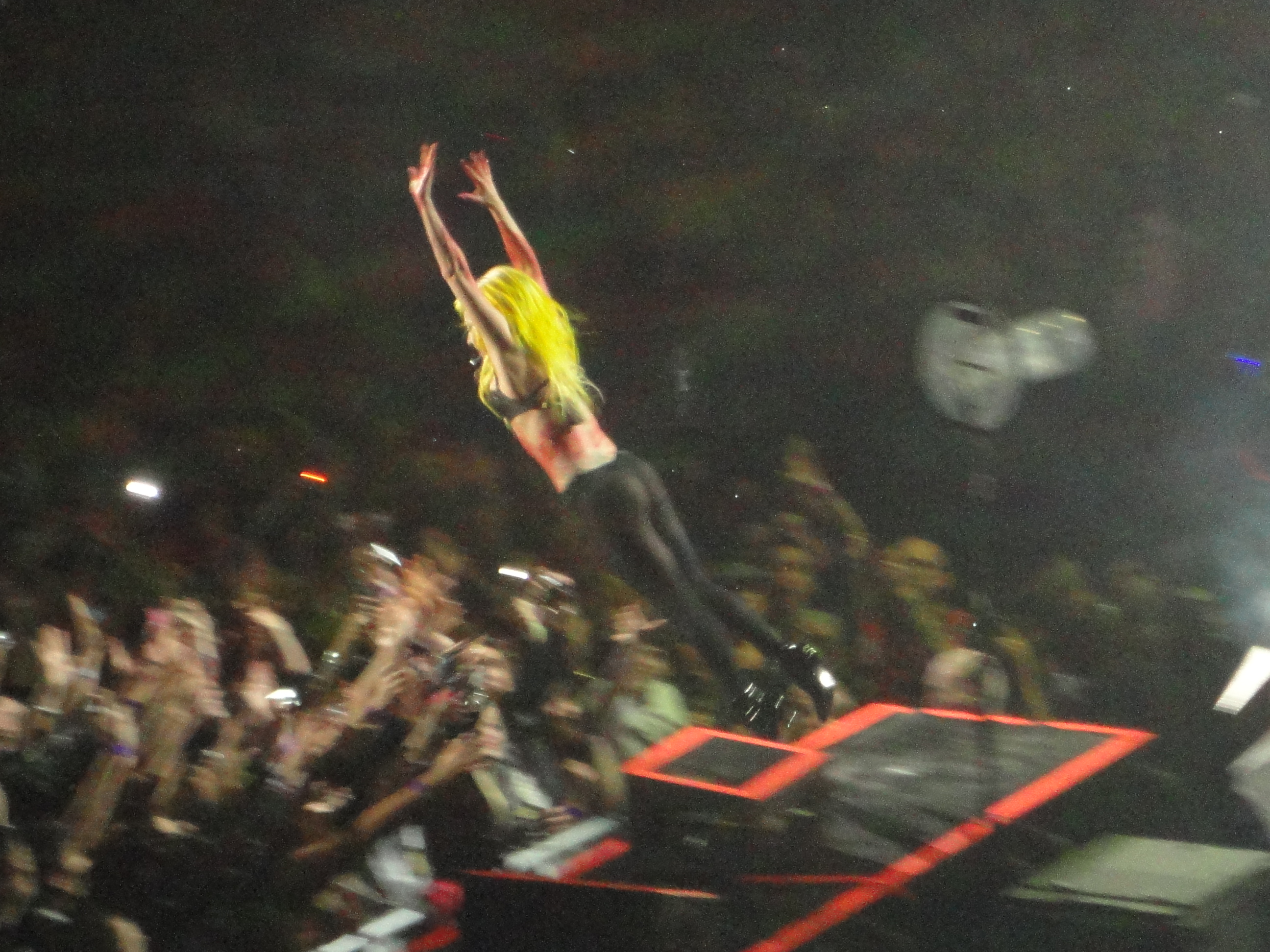 A picture I took of Lady Gaga at The Monster Ball in Toronto on March 3rd 2011